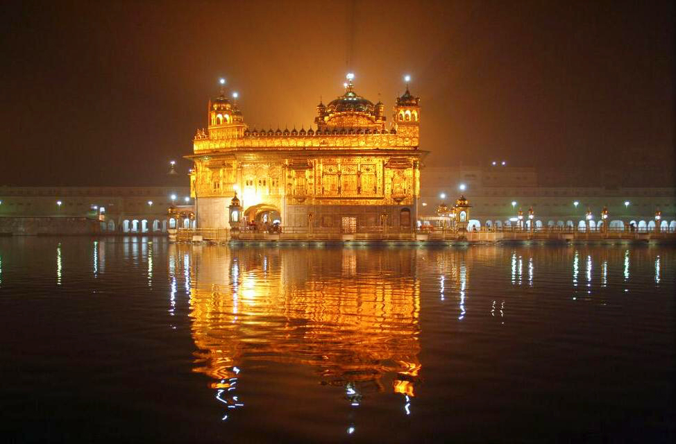 The Golden Temple (Harmandir Sahib) at night.